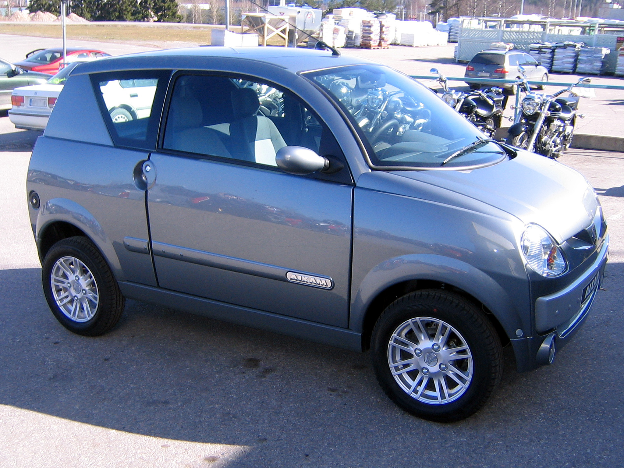 AIXAM A.741 Super Luxe - a light quadricycle (moped), 45 km/h max speed